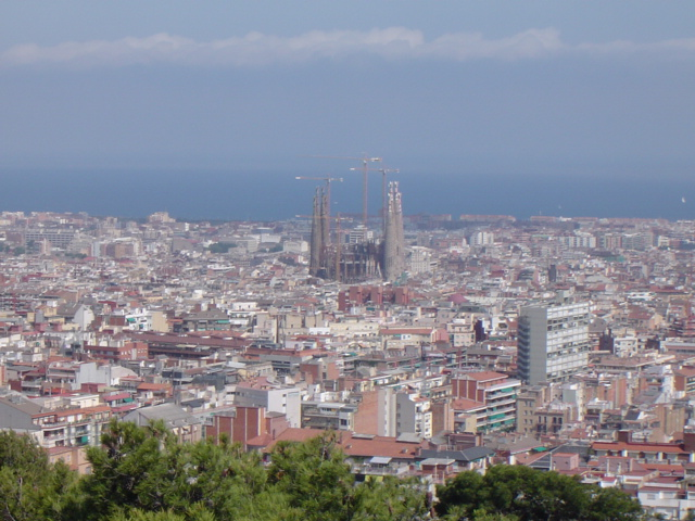 Sagrada Familia from Parc Güell